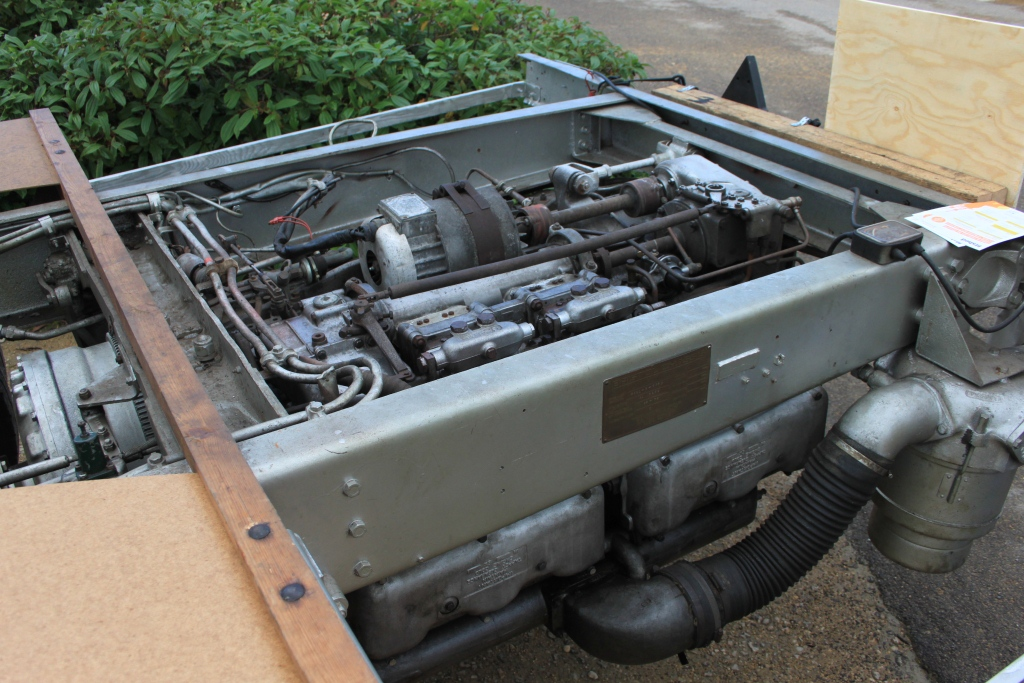 Bristol Museums have preserved a Bristol RELL6G chassis without a body, it having once been Ulsterbus number 2288 (registration TOI2288) This view, taken at the Bristol Vintage Bus Rally in 2012, shows the way that the engine was mounted under the chassis at the rear of the bus which enabled it to have a low floor at the front.